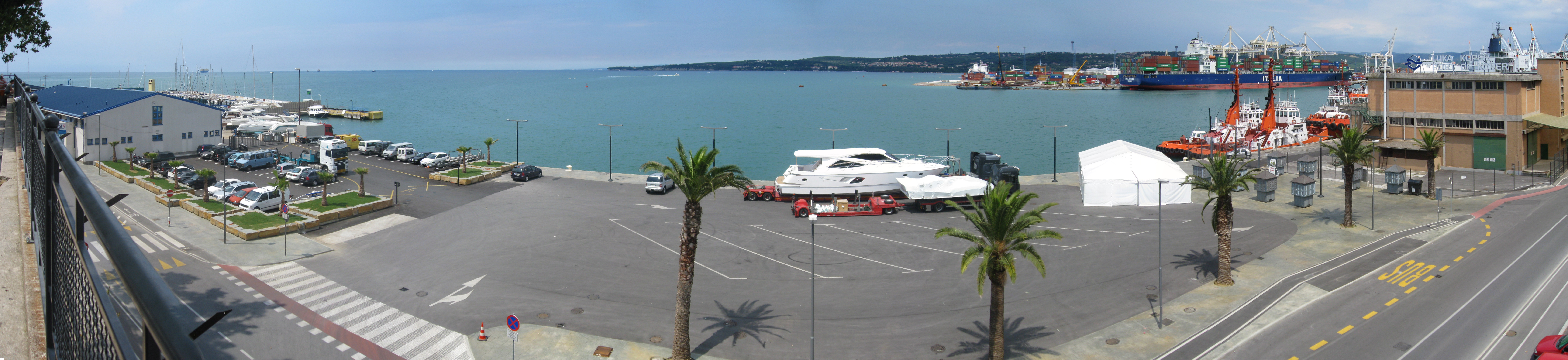 Port of Koper, panorama